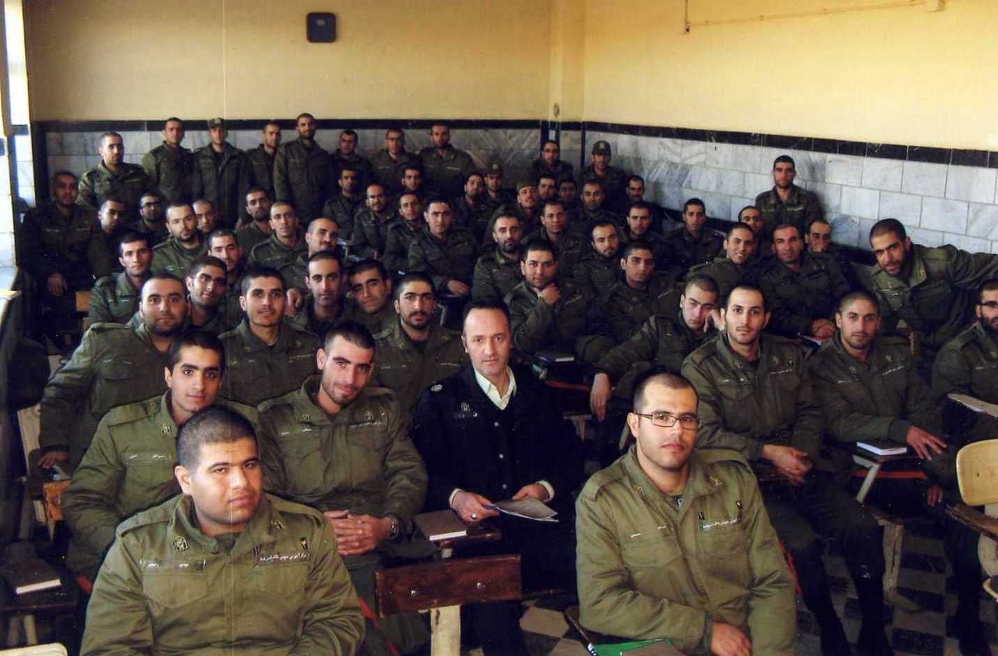 A number of Amateur young soldiers (with a bachelor's degree) in training term(Bimestrial) in the Malik al-Ashtar barracks belong to Law enforcement in Iran.